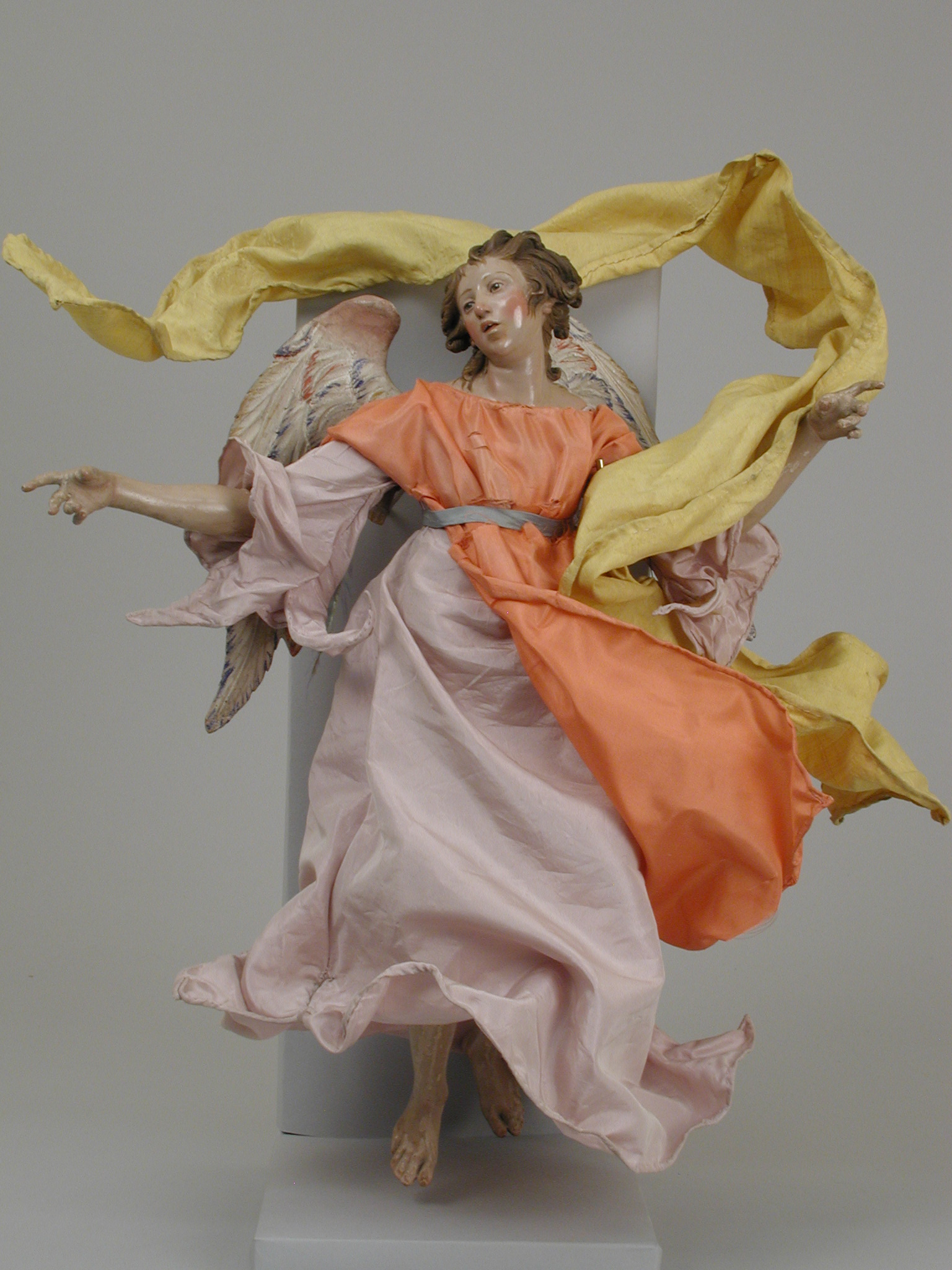 Italian, Naples; Crèche figure; Crèche